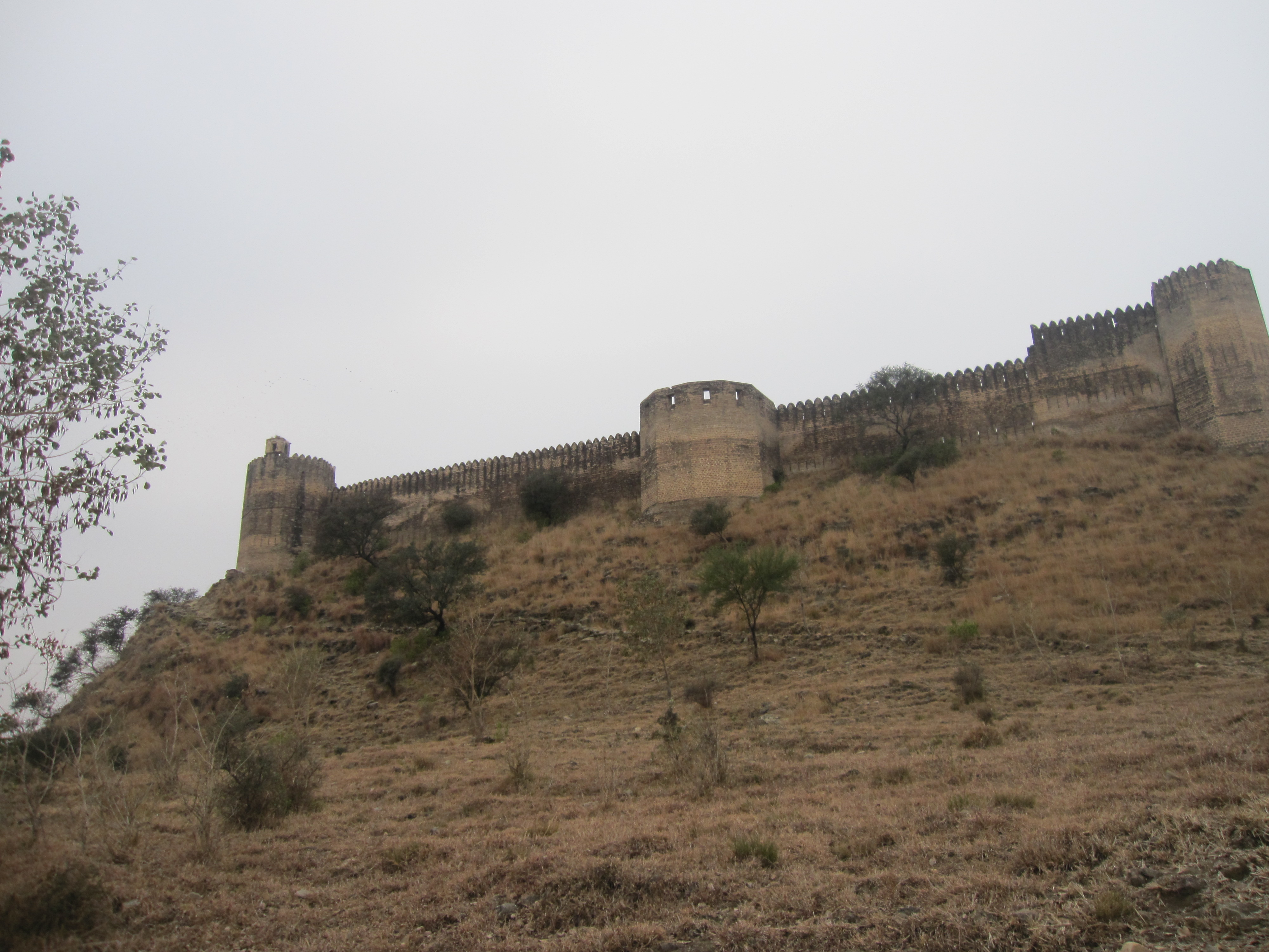 Ramkot Fort - From Outside